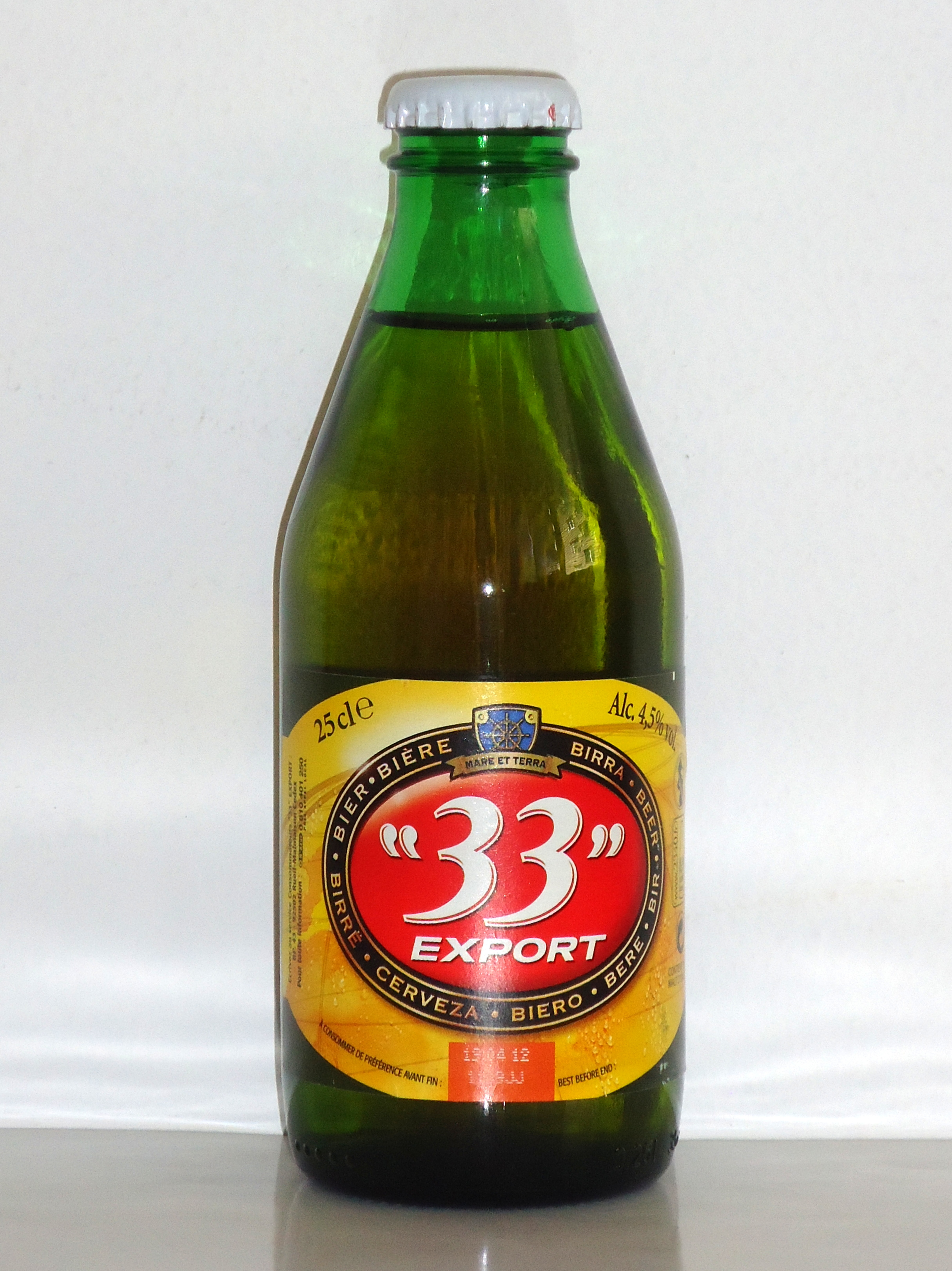 33 Export - beer